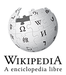 Wikipedia logo 2.0